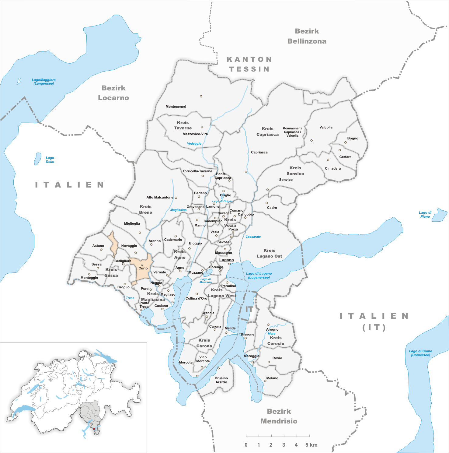 Municipality Curio